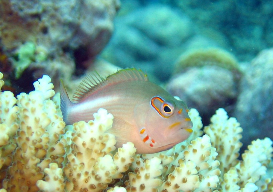 An Arc-eyed Hawkfish (Paracirrhites arcatus) keeping watch from a branching coral. Cod Hole, Ribbon Reefs, Great Barrier Reef